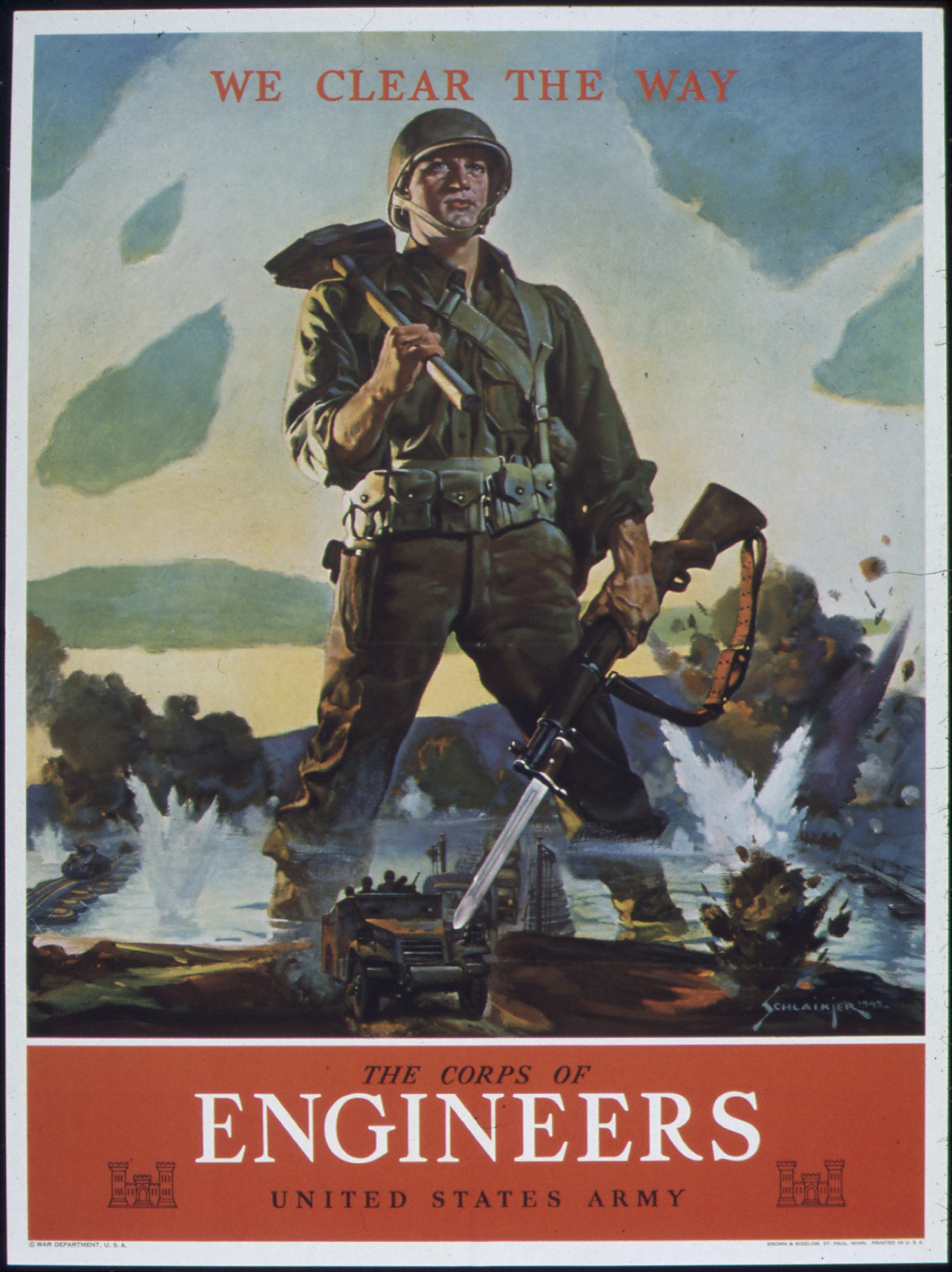 "WE CLEAR THE WAY - ENGINEERS", 1941 - 1945 - U.S. Army Corps of Engineers World War II recruiting poster